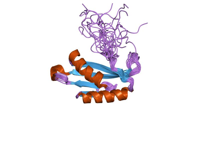 Cartoon representation of the molecular structure of protein registered with 1ul7 code.